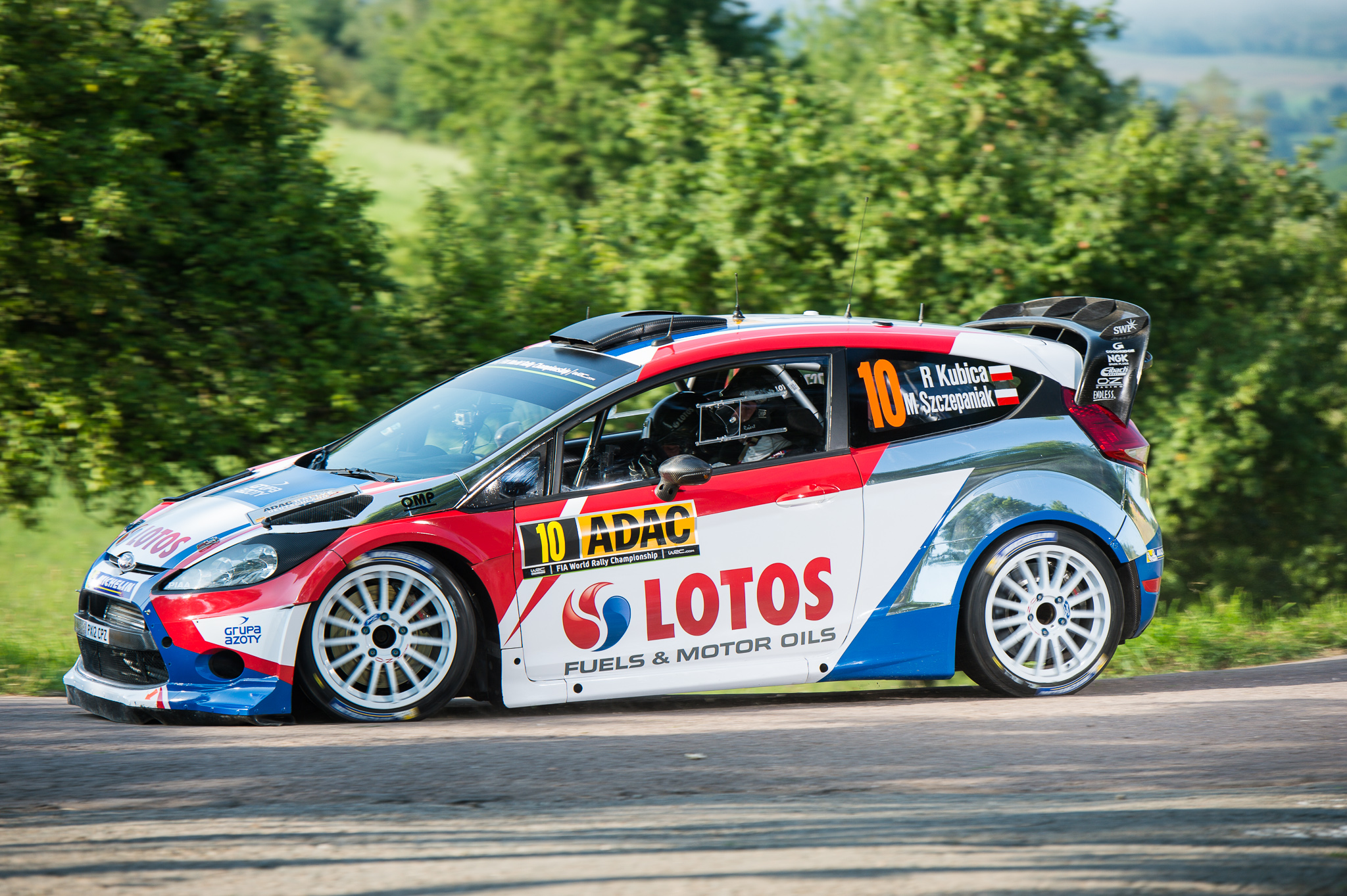 ADAC Rallye Deutschland 2014,FIA,FIA World Rally Championship,Ford Fiesta RS WRC,Maciej Szczepaniak,Motorsport,RK M-Sport WRT,RK M-sport World Rally Team,Rally,Rallye,Robert Kubica,Shakedown,WRC